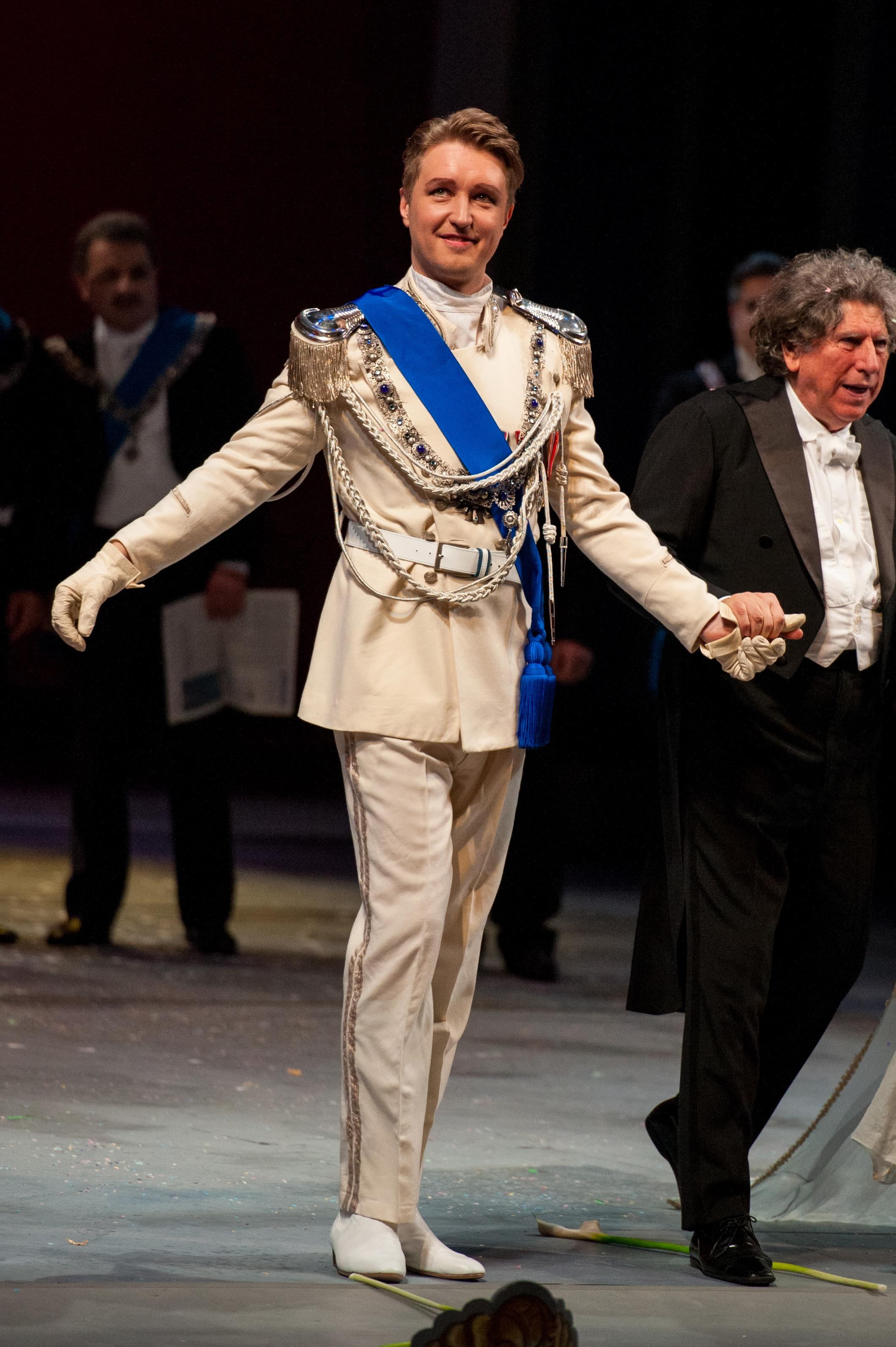 Operatic tenor Maxim Mironov as Prince Ramiro in Rossini's opera La Cenerentola, Teatro di San Carlo, Naples (2015); Gabriele Ferro, conductor.